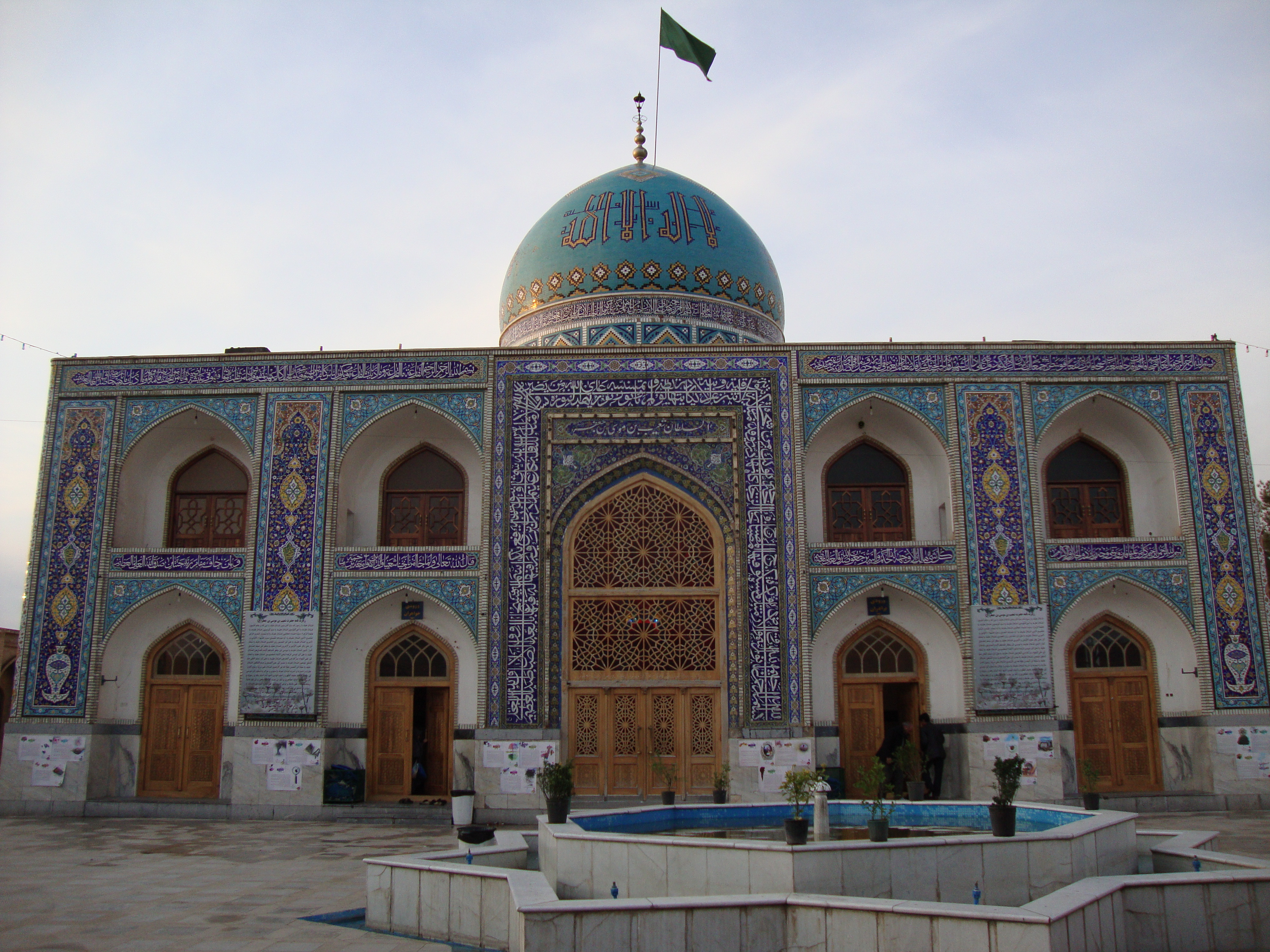 Shoayb Monument, Sabzevar, Iran